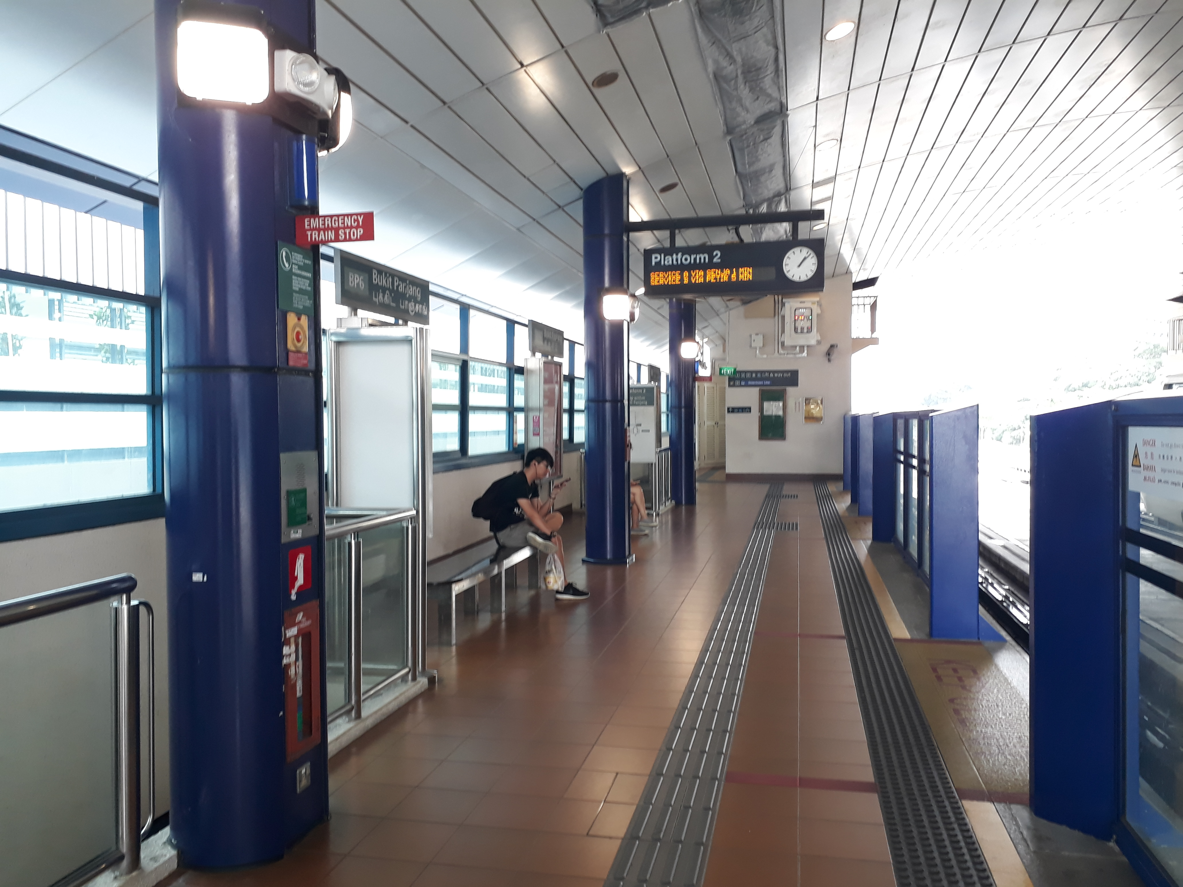 Platform 2 of Bukit Panjang LRT